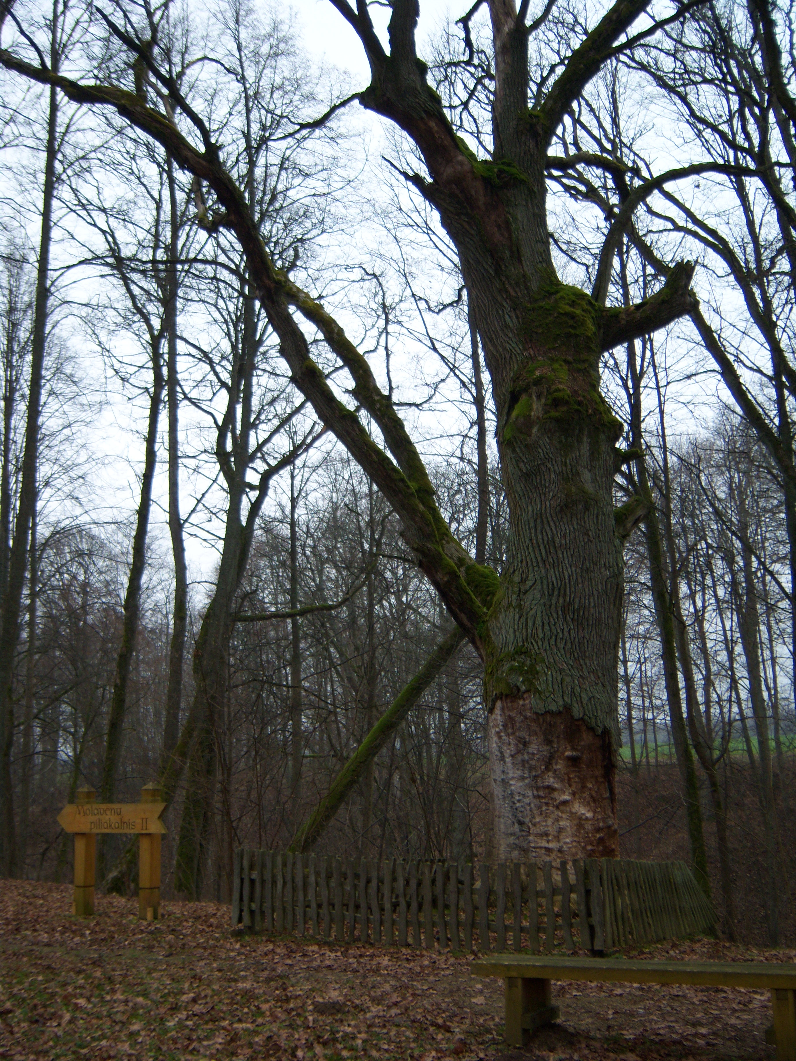 Molavėnai Oak, Raseiniai District, Lithuania